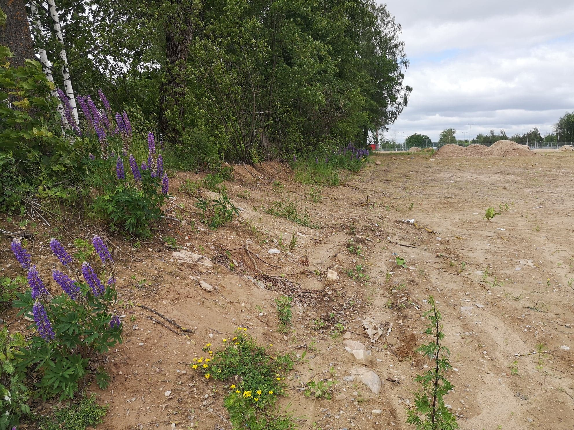 Tarandės senosios kapinės. Vaidos Jonušytės